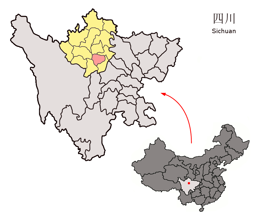 Location of Li County (pink) and Ngawa Prefecture (yellow) within Sichuan province of China Map drawn in september 2007 using various sources, mainly : Sichuan province administrative regions GIS data: 1:1M, County level, 1990 Sichuan Counties map from